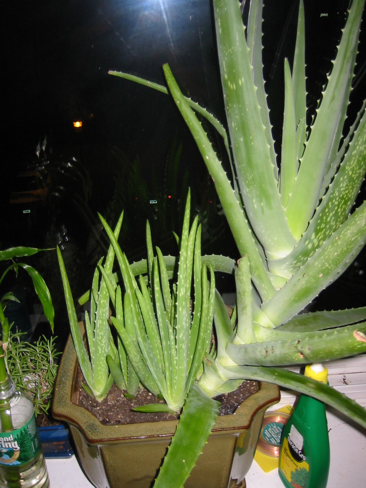 An Aloe vera houseplant, with multiple offsets. See also Image:Aloe vera with shoots.jpg, Image:Aloe vera with shoots 2.jpg, and Image:Aloe vera with shoots 4.jpg for the same plant at different stages of growth.